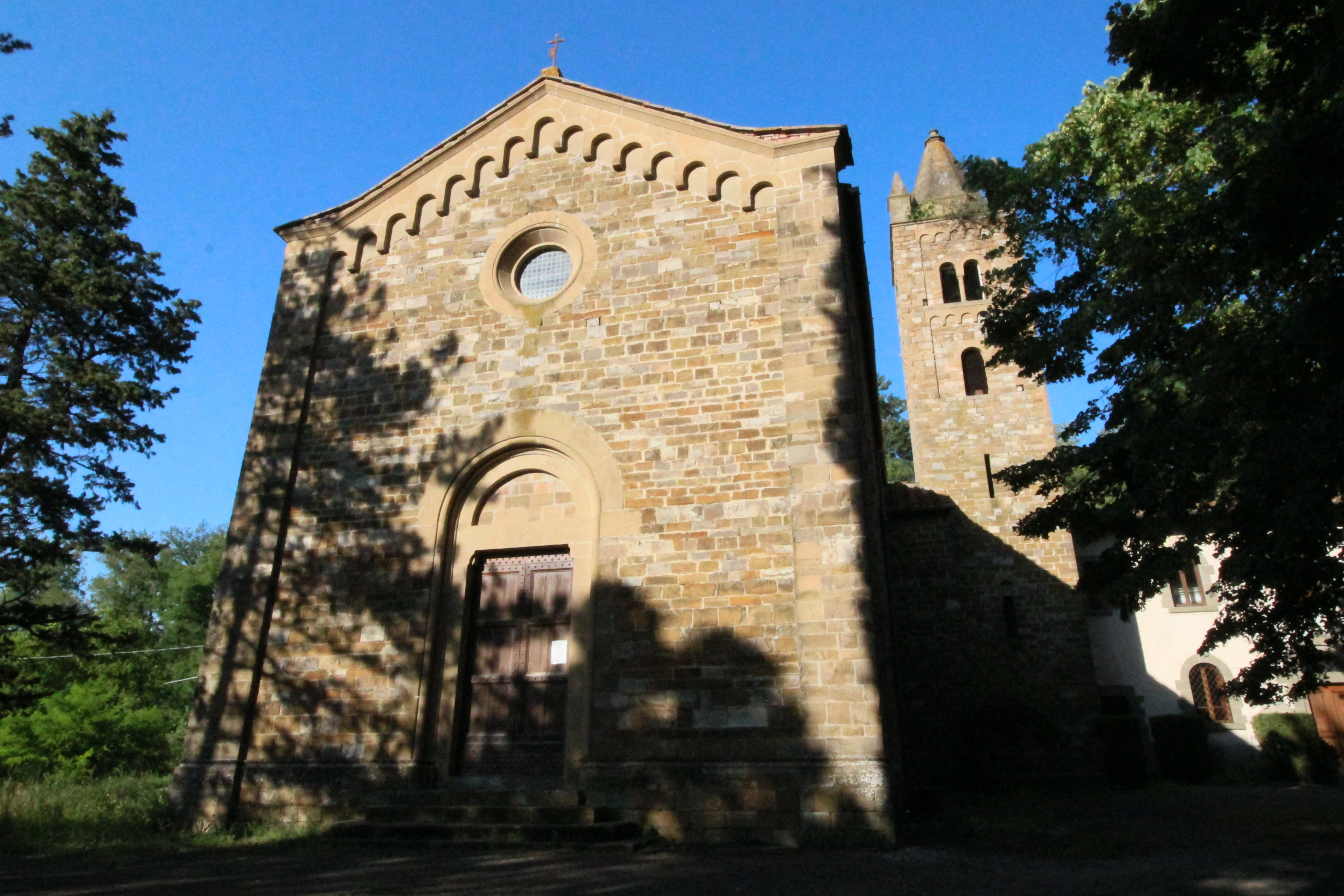 Church San Martino, Lucarelli, hamlet of Radda in Chianti, Province of Siena, Tuscany, Italy